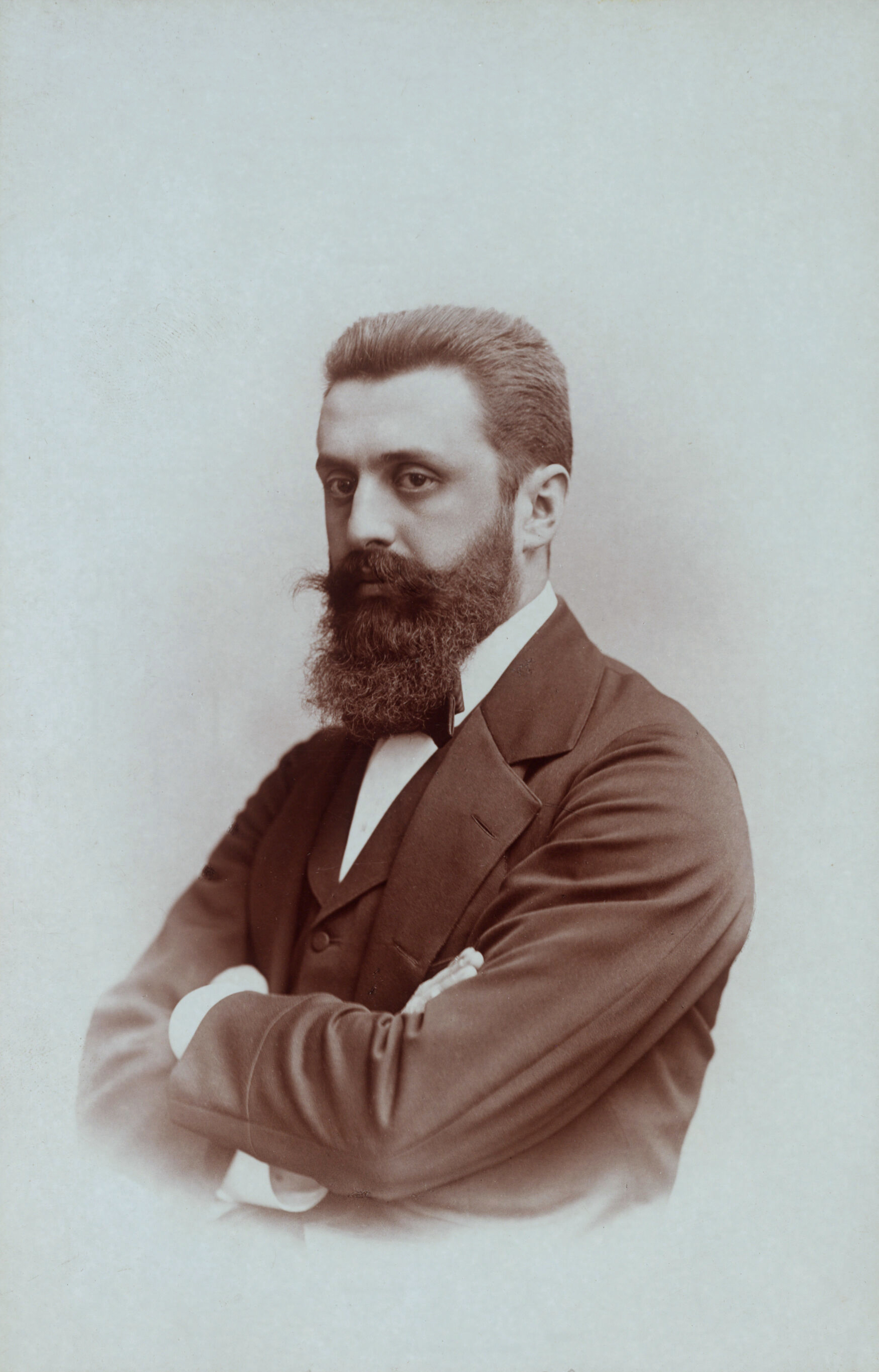 Theodor Herzl (1860-1904)